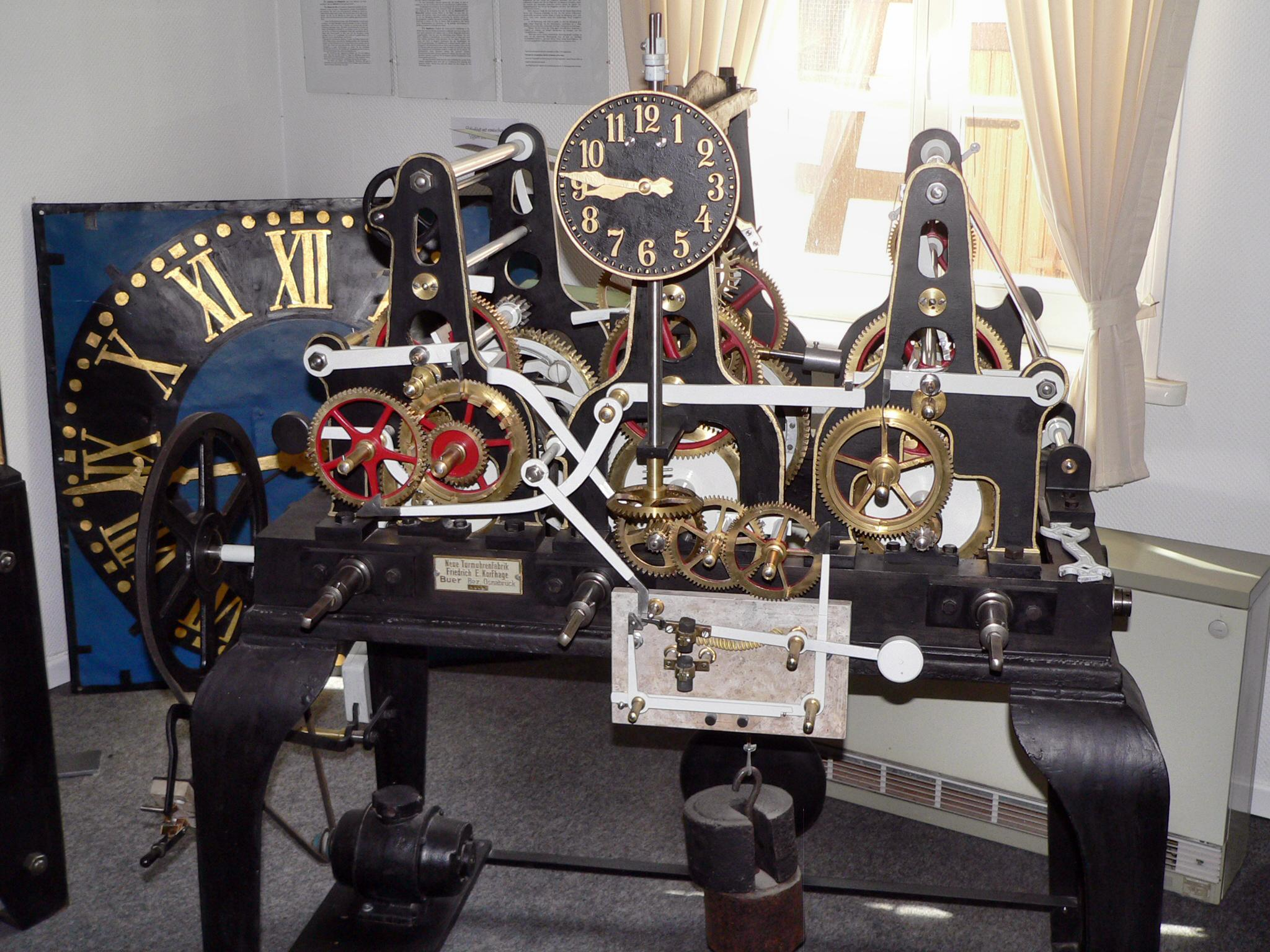 Turret clock of the company Friedrich E. Korfhage, built 1948 in the museum Turmuhrenmuseum Bockenem, Germany